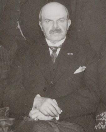 A.J. Marcusse (1868-1933); Hoofdcommissaris van politie te Amsterdam / Chief Constable of the Amsterdam Police